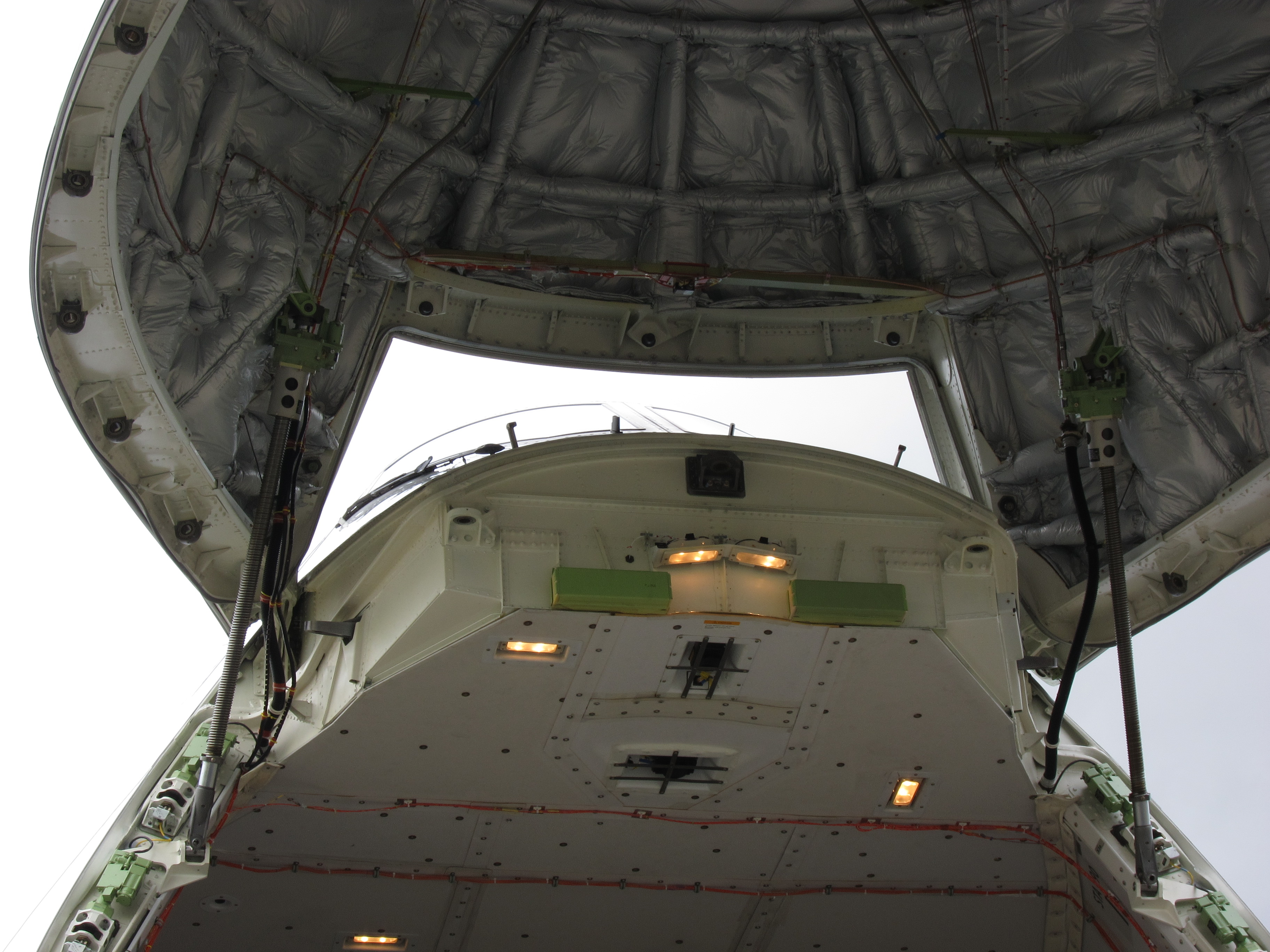 Close-up view of the raised nose cargo door and hinge of a Boeing 747-8F. On the side of the protruding flight deck, the two leadscrews of the nose-raising mechanism can be observed. The inside of the nose features copious insulation.